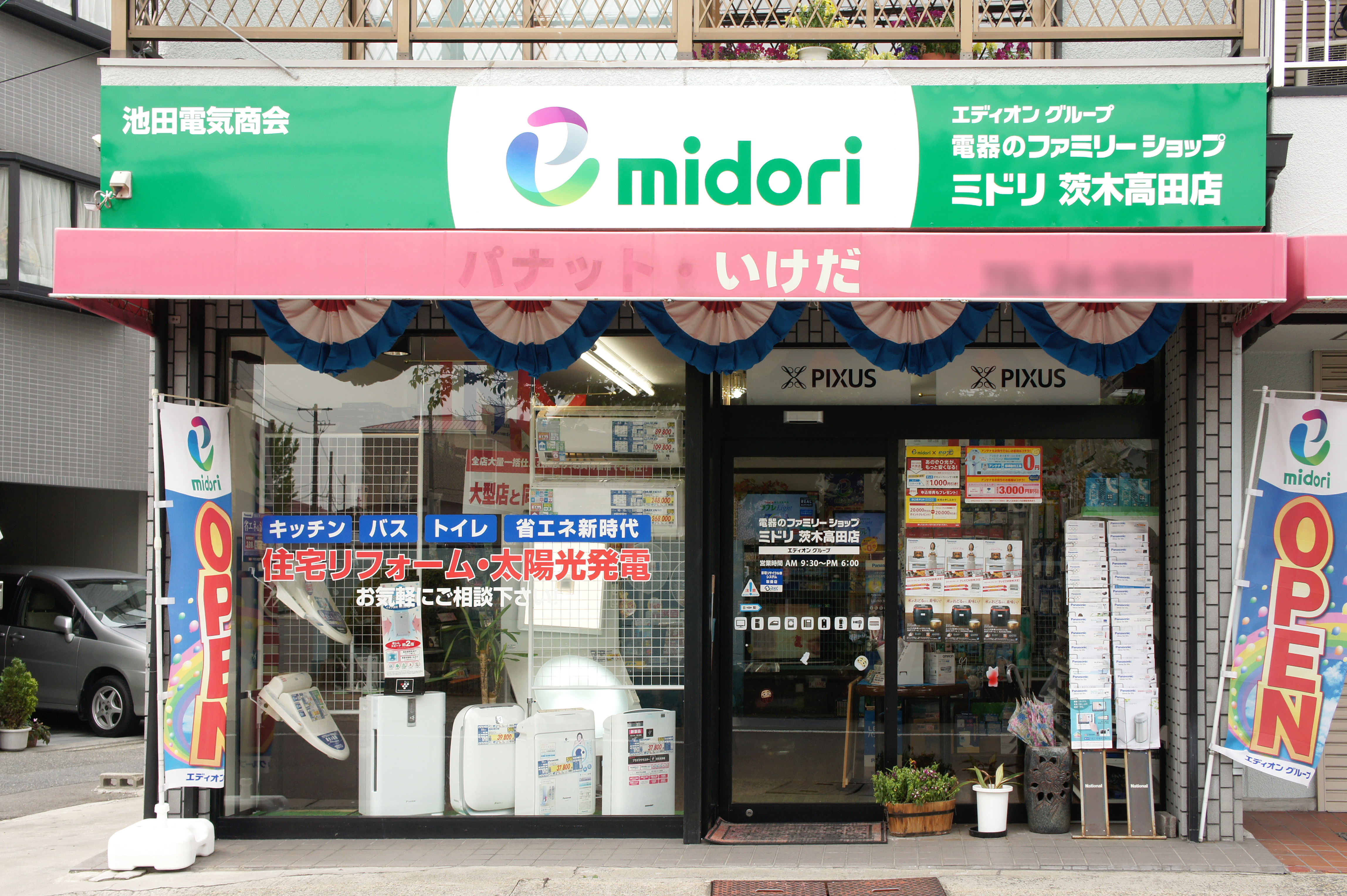 midori Ibaraki-Takada, 7-16 Takada-cho Ibaraki-City Osaka Japan.